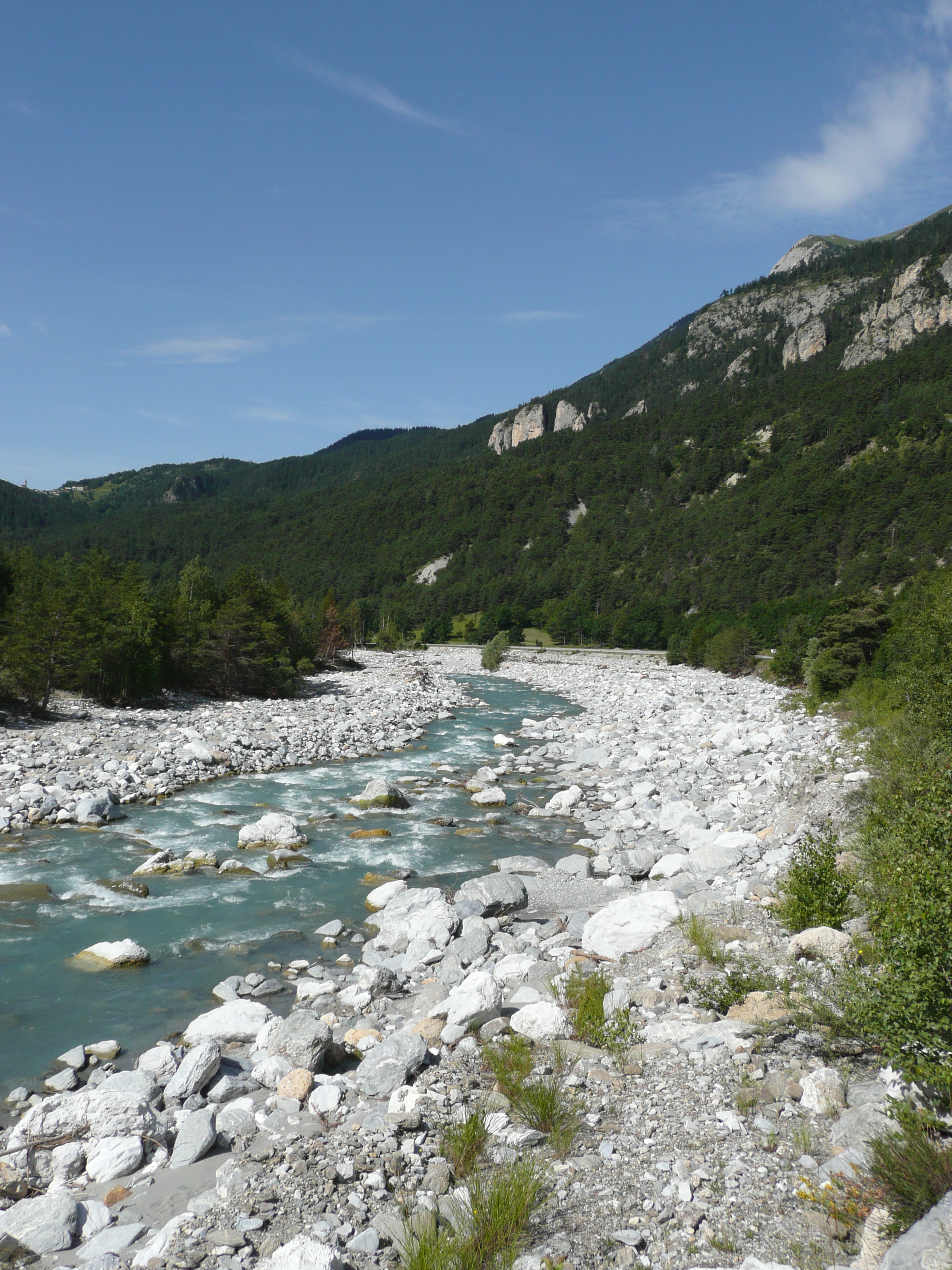 The river Arc (France, Savoie) near Sollières